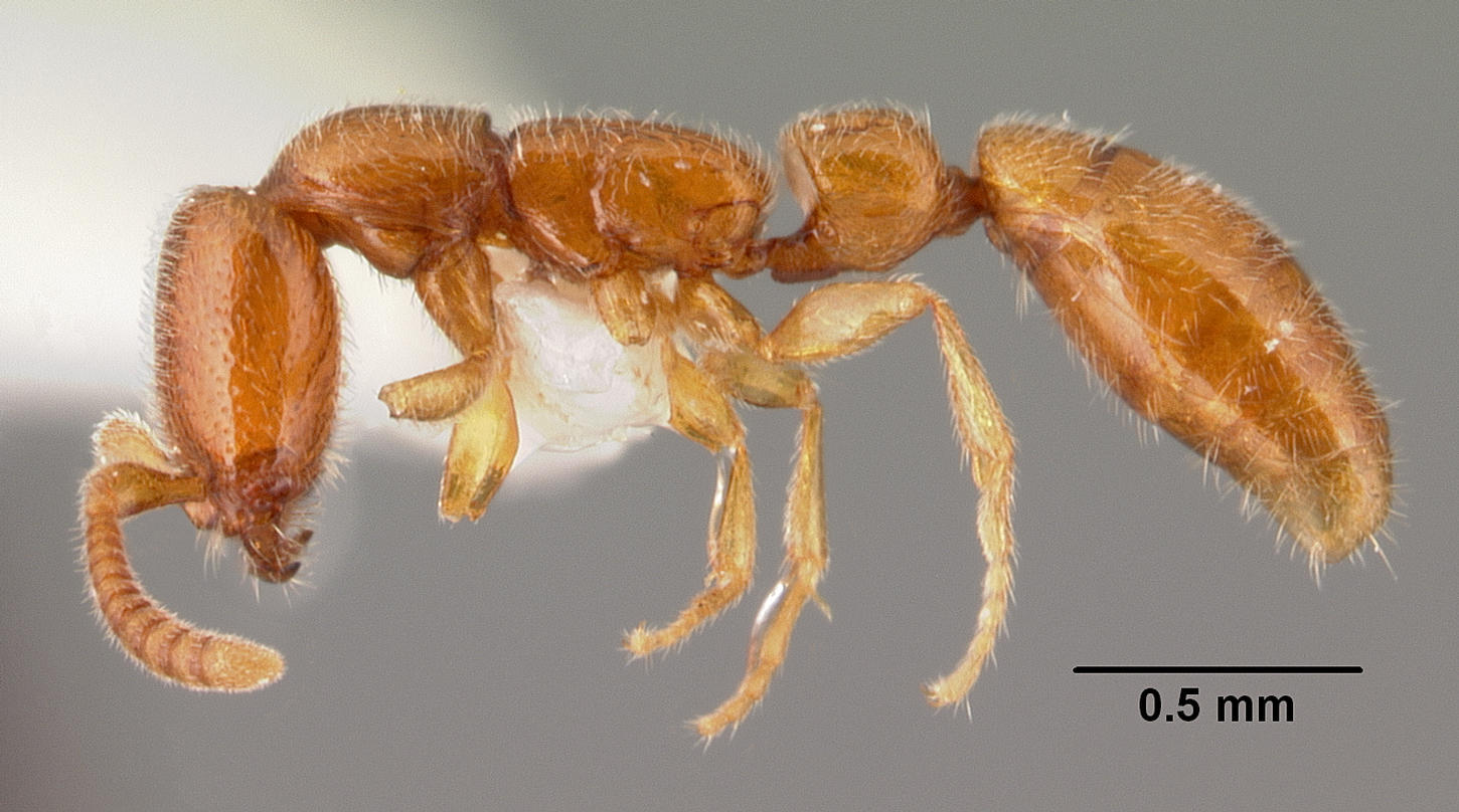 Profile view of ant Apomyrma stygia specimen casent0101444.